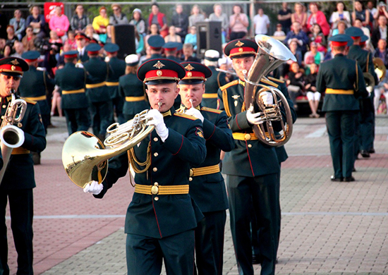 В рамках VII Международного военно-музыкального фестиваля «Амурские волны-2018» состоялось масштабное выступление военных музыкантов ВВО